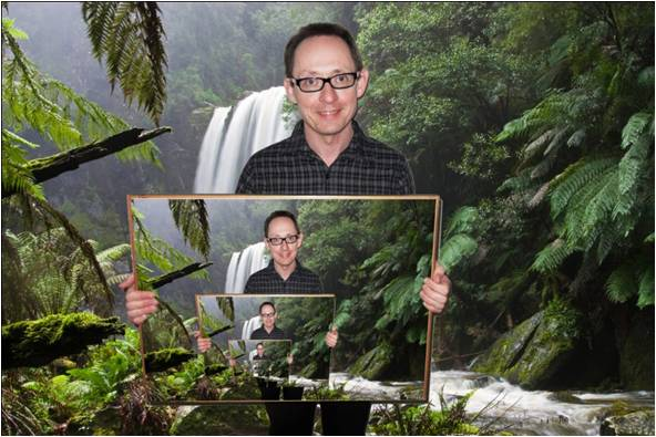 My own work - created for a lecture for Michael Schwartzbach